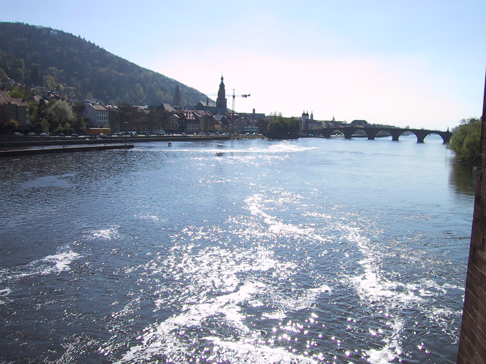 view over river Neckar from north east near Heidelberg.